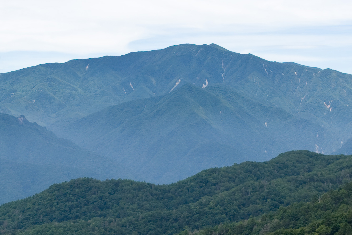 Mt. Kokushigatake and Mt. Kitaokusenjo's massif as seen from the east, in Okuchichibu Mountains, Honshu, Japan. Taken from Mt. Kasatori